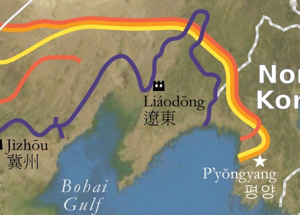 The Liaodong section of the map of the Great Wall of China. The Ming Liaodong Wall in shown in purple. Other colors refer to much older structures.